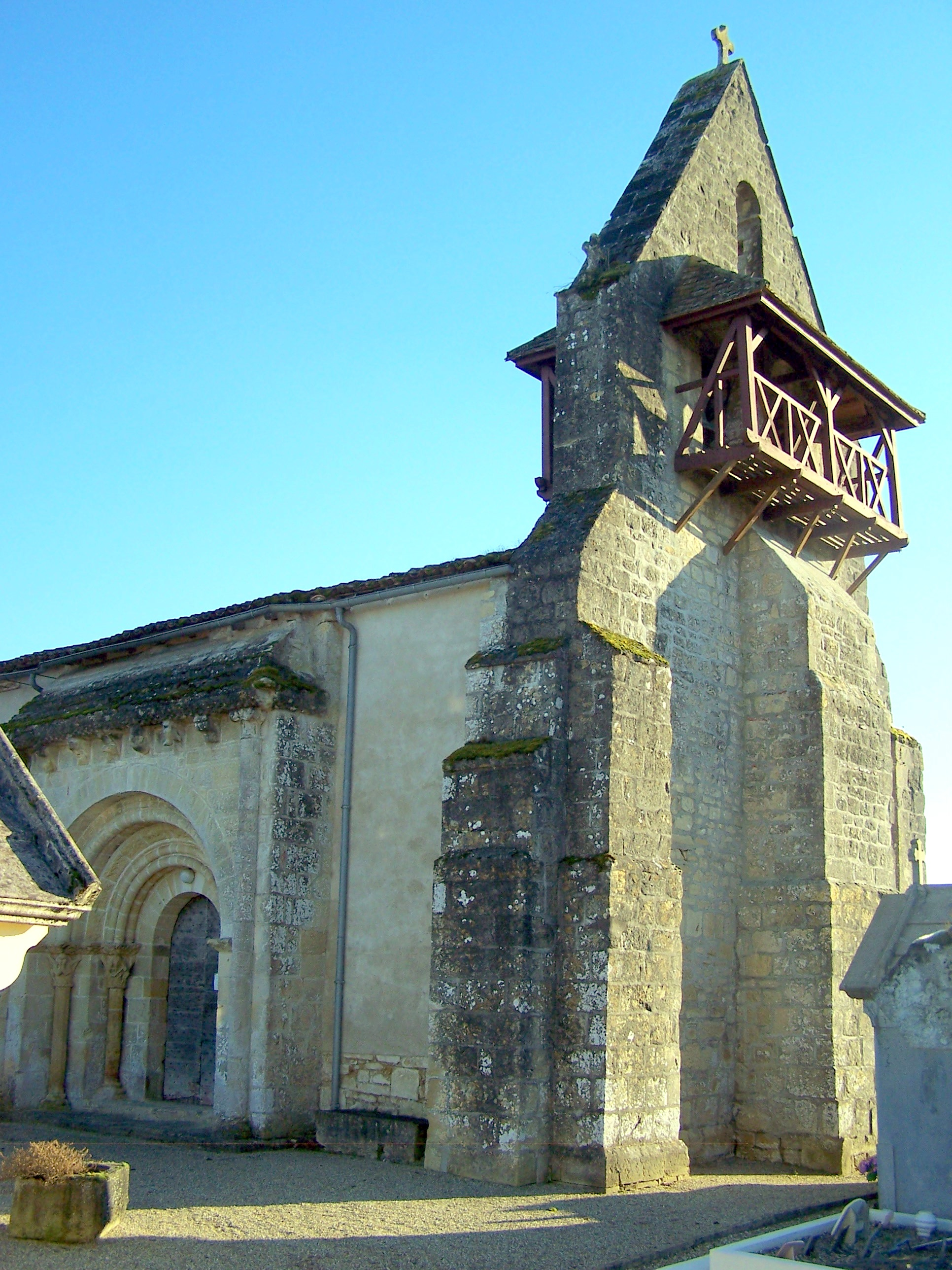 Church of Saint-Hilaire-de-la-Noaille (Gironde, France)